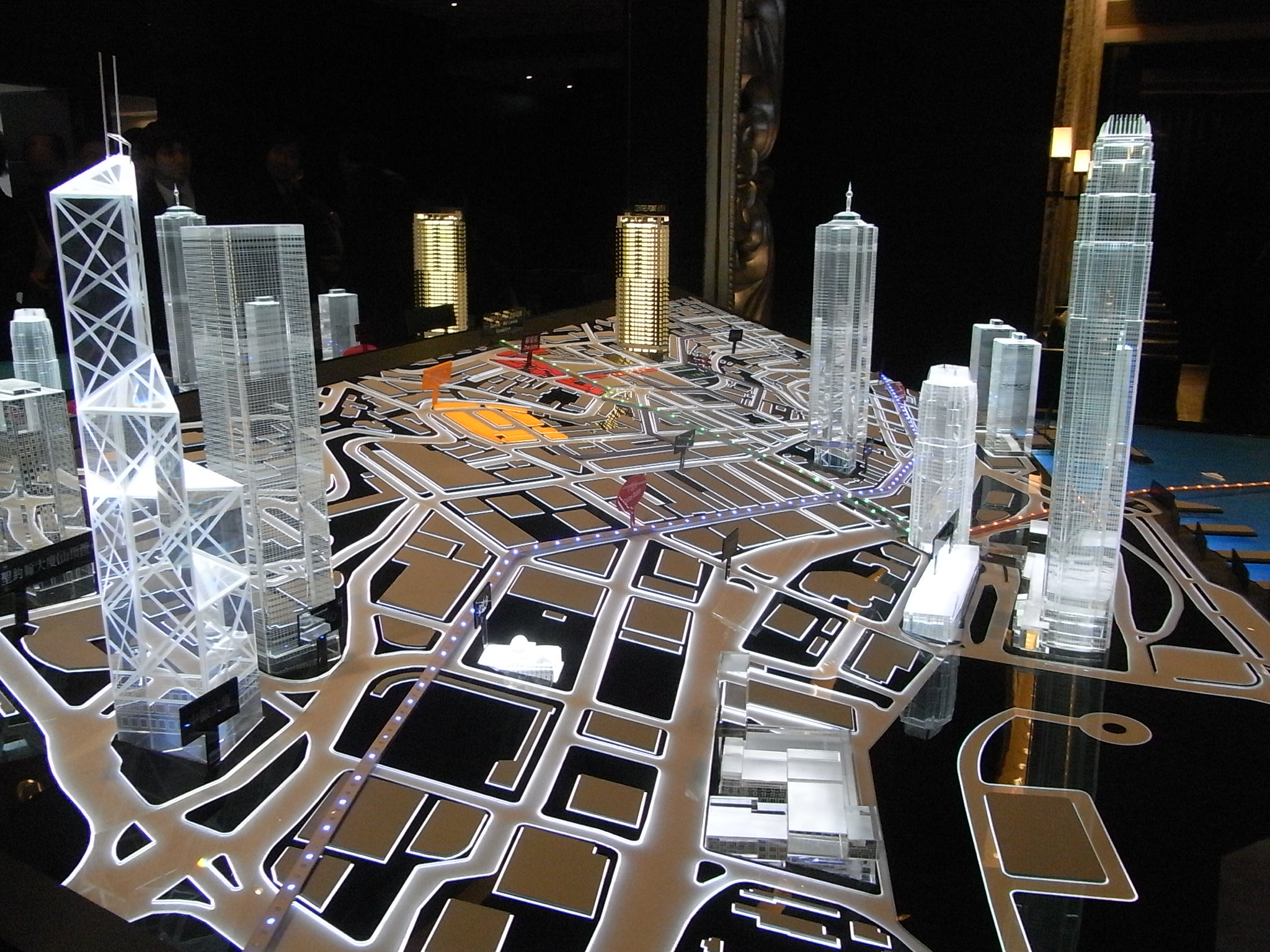 尚賢居（英文：CentrePoint），恆基地產發展之樓花樓盤 - 上環士丹頓街72號